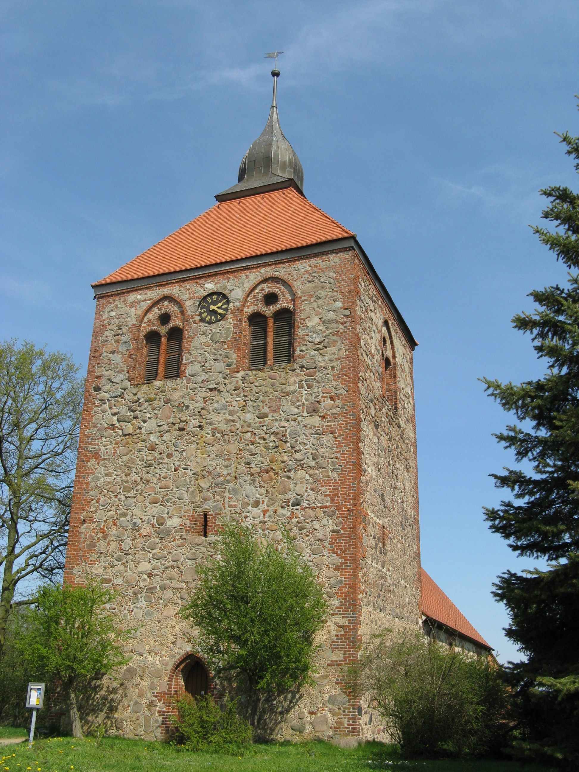 Church in Dambeck, Mecklenburg-Vorpommern, Germany